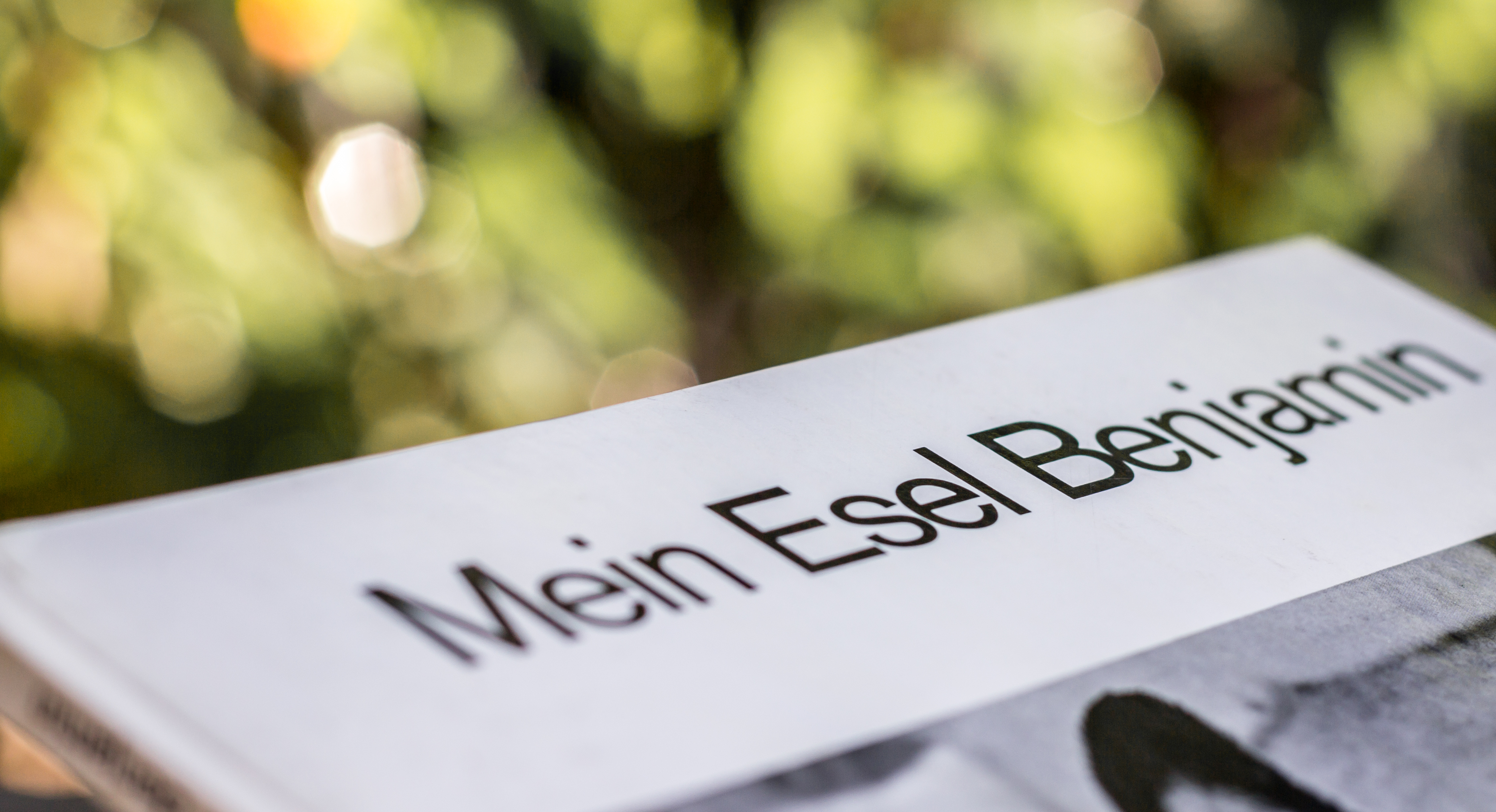 Title of „Mein Esel Benjamin“ (My donkey Benjamin), German children's book of 1968, typography